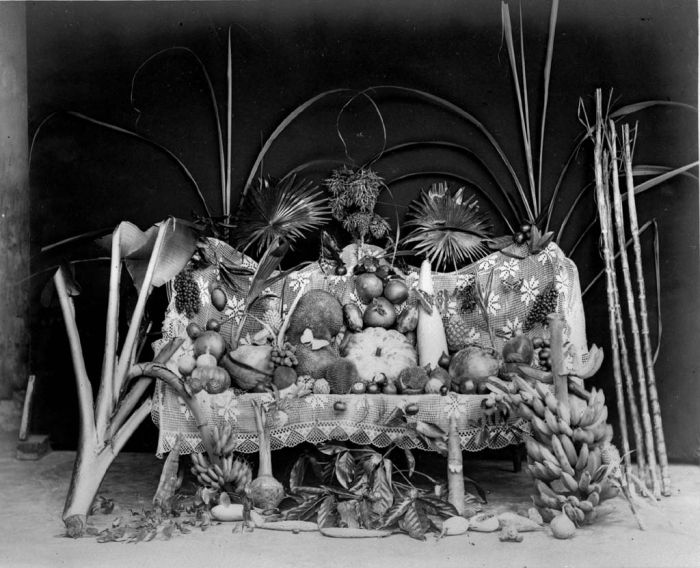 Tropical fruits still life